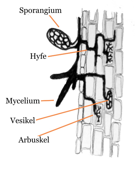 Arbuscular mycorriza, cross section.